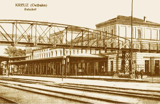 Train station Krzyż Wielkopolski (before 1945 Kreuz, Ostbahn)